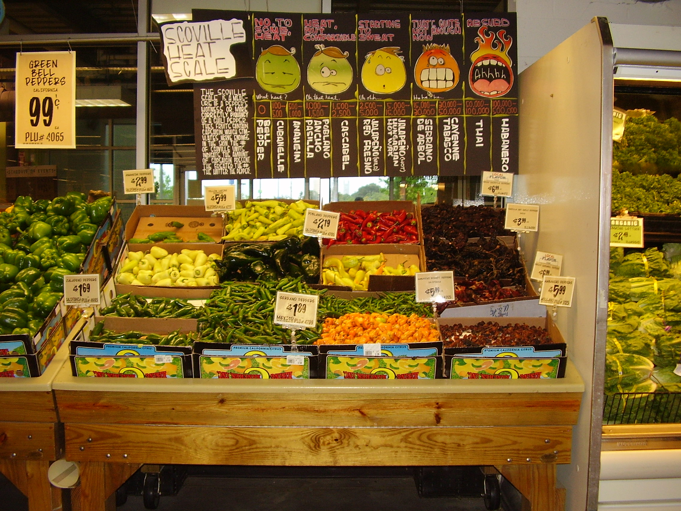 A display of hot peppers and a board explaining the Scoville scale at the H-E-B Central Market location in Houston, Texas - Art by Lisa Stewart